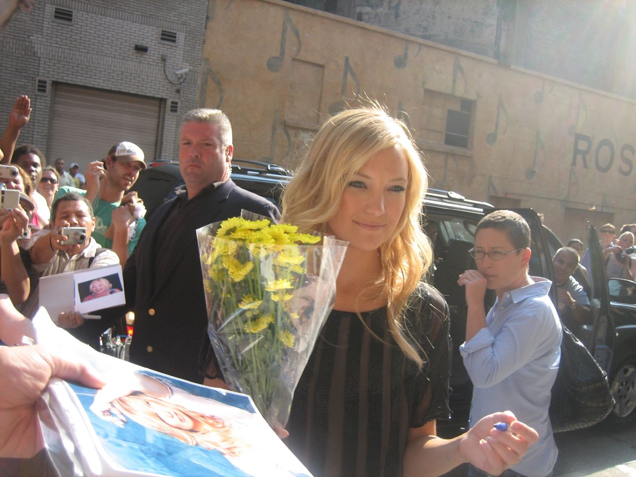 Kate Hudson after her appearance on the Late Show with David Letterman promoting You Me and Dupree